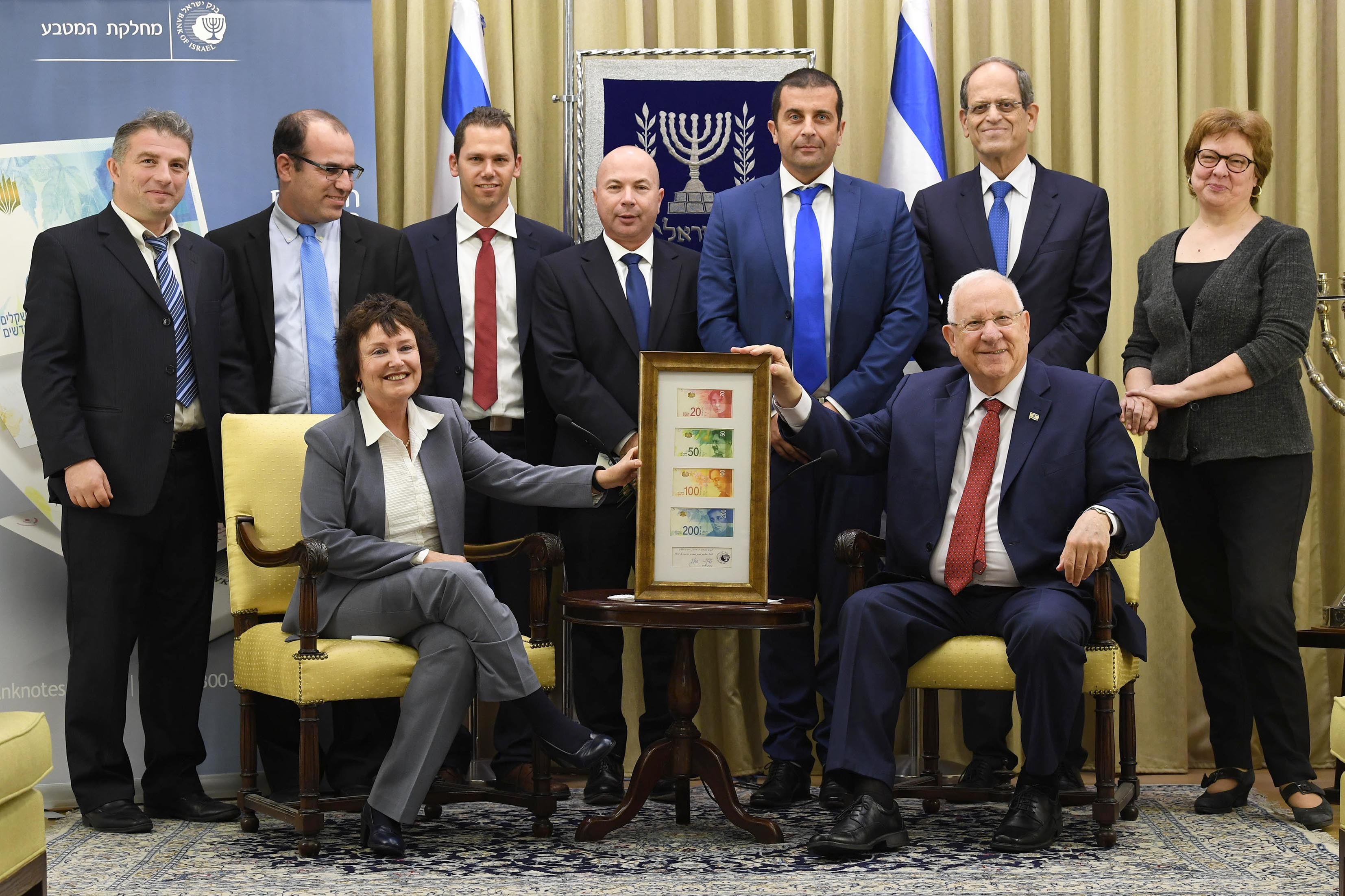 The President of Israel Reuven Rivlin receives the new bills for NIS 20 and NIS 100 from the Governor of the Bank of Israel, and now there is equal representation of men and women in portraits appearing on them. Wednesday, November 22, 2017. Photo Credit: Mark Neyman / GPO.